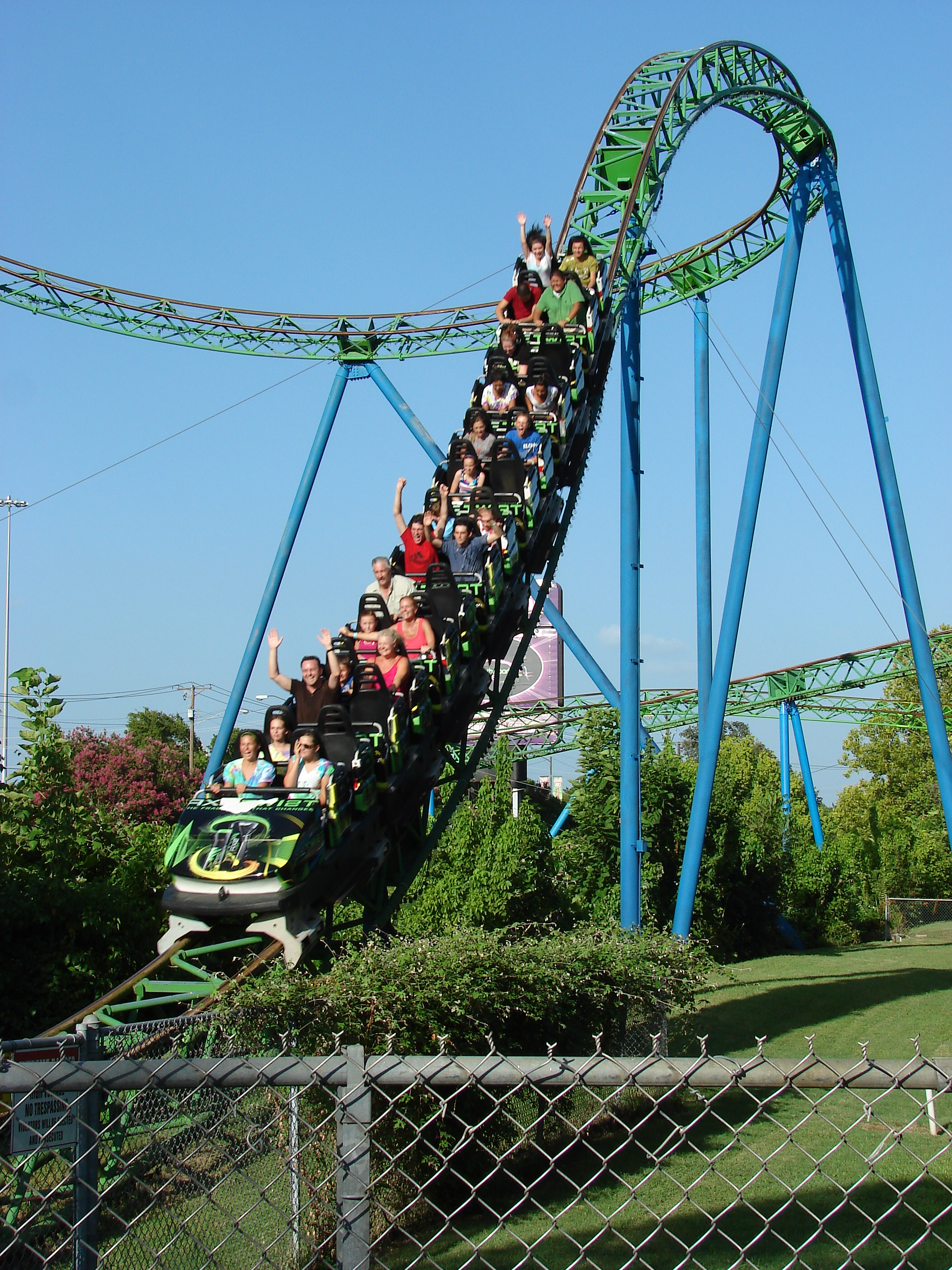 The Shock Wave roller coaster ride at Six Flags Over Texas.